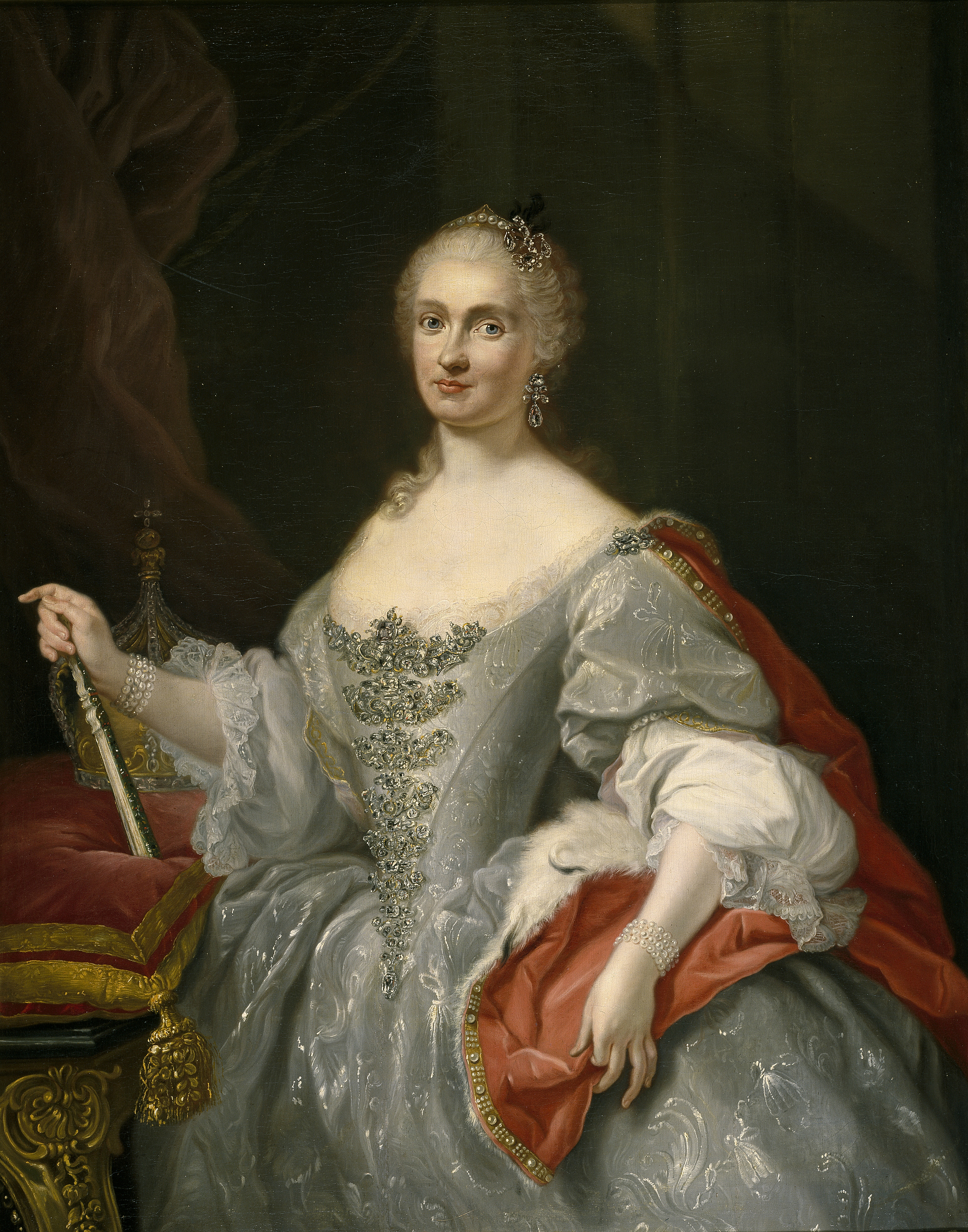 Portrait of Maria Amalia of Saxony as Queen of Naples overlooking the Neapolitan crown.